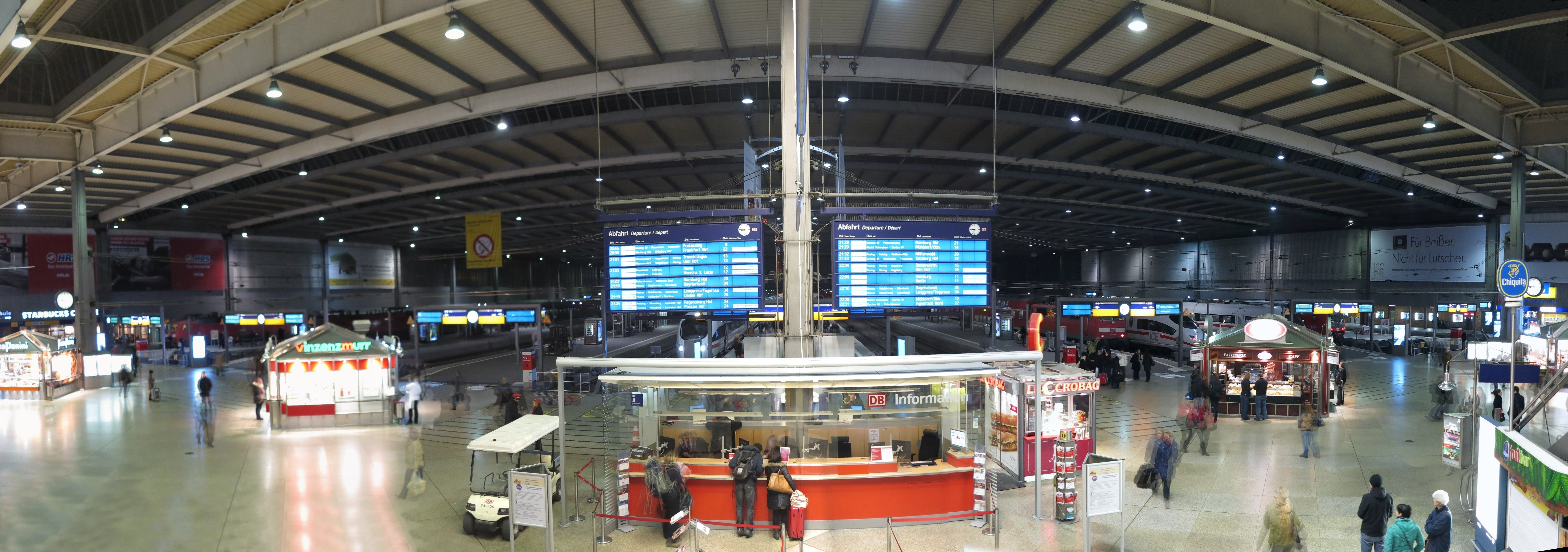 Germany, Bavaria, Munich, Central Station, Panorama